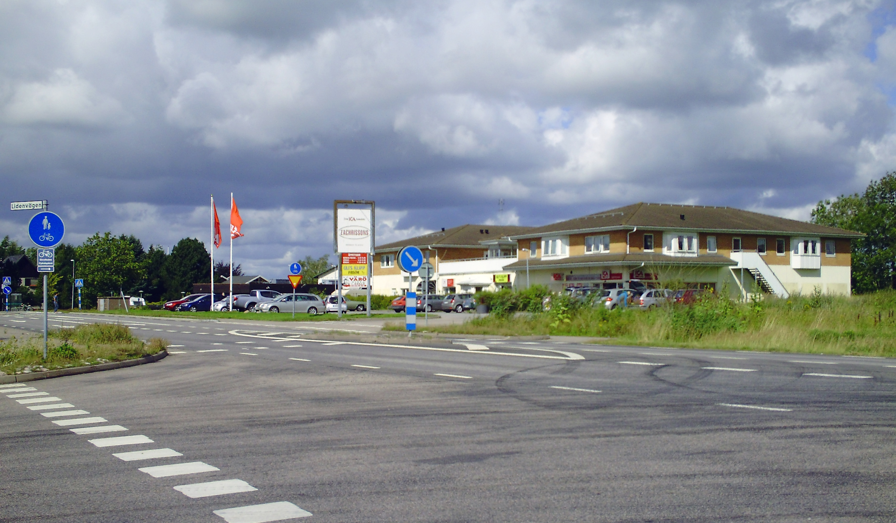 Zachrissons livs in Väröbacka, Halland, Sweden.